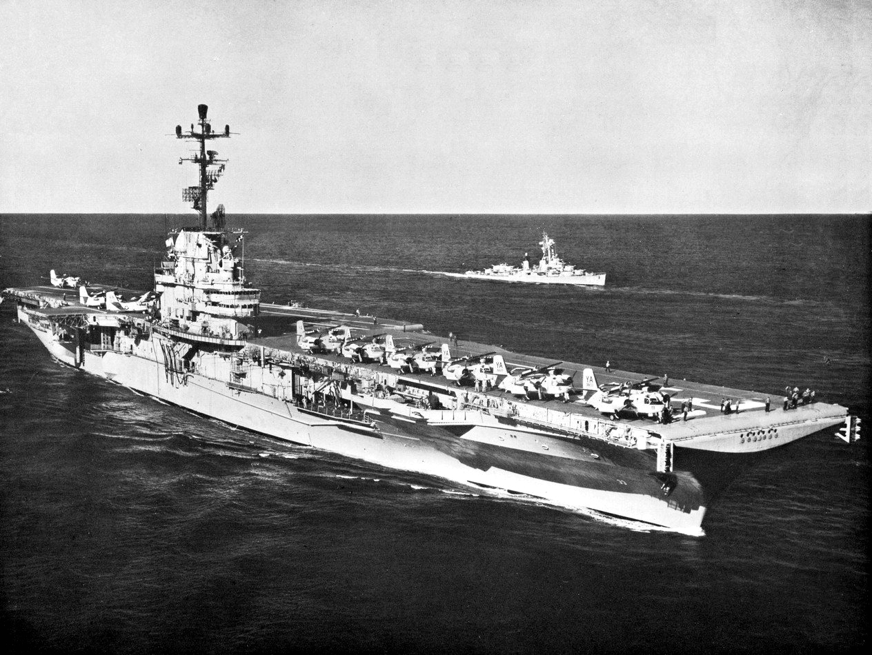 The U.S. Navy aircraft carrier USS Kearsarge (CVS-33) underway during her first cruise as an anti-submarine carrier. Kearsarge was deployed to the Western Pacific from 5 September 1959 to 15 March 1960. The destroyer USS Porterfield (DD-682) is visible in the distance.